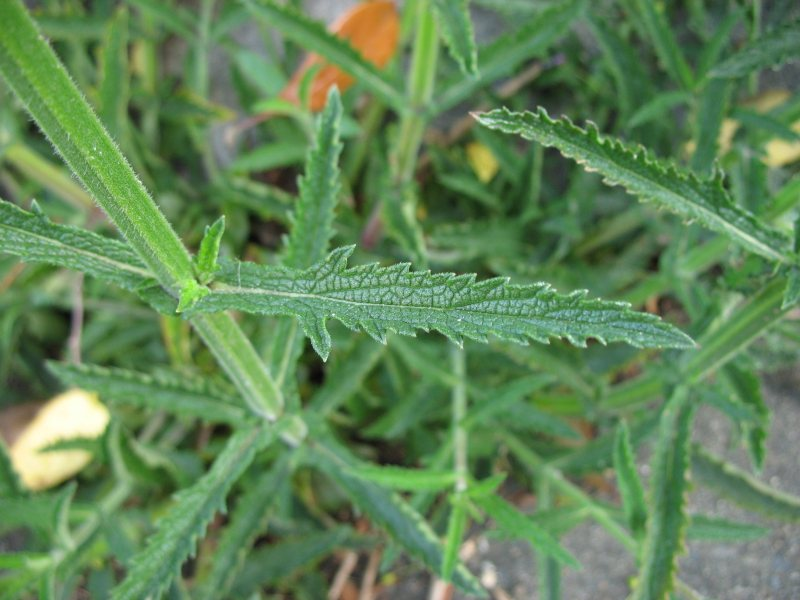 Photograph of Verbena bonariensis, taken in Machida city, Tokyo, Japan. Croped & resized.